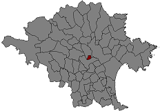 Location of Vilabertran in Alt Empordà